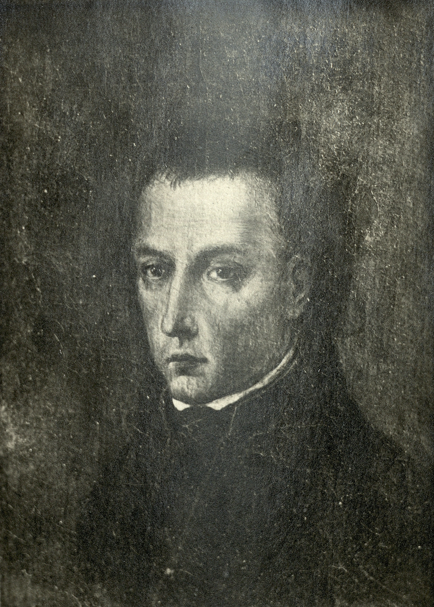 Self-portrait Leopold Layer (1752-1828)